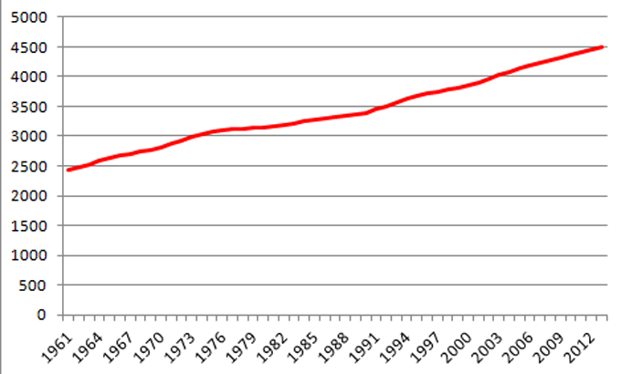 New Zealand's population (1961-2013). In thousands. Data from